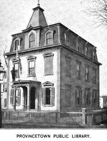 Public library, Massachusetts